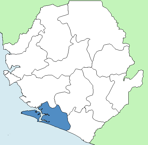 Map showing location of Bonthe District in Sierra Leone